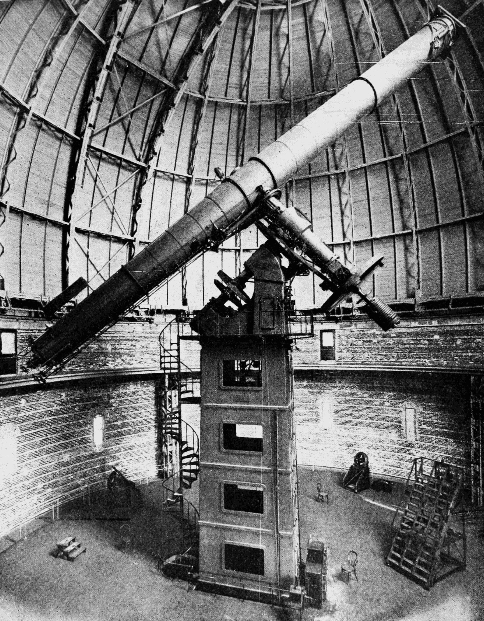 he forty inch telescope of the Yerkes observatory